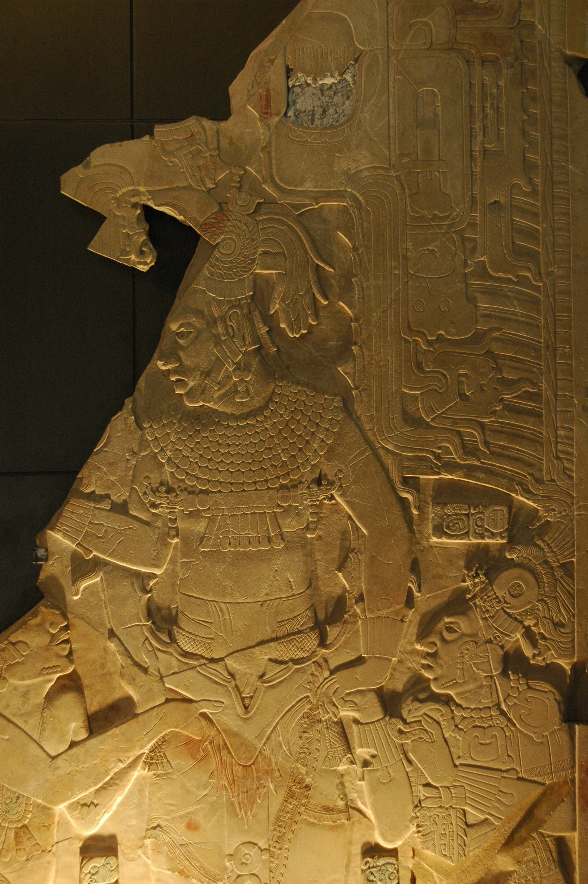 Maya site of Palenque, Chiapas, Mexico. Sculpture depicting king K'inich Ahkal Mo' Naab III (Temple 19). Limestone